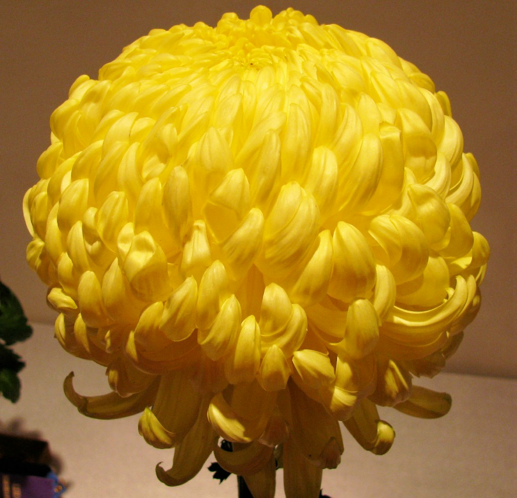 Chrysanthemum - Irregular Incurve